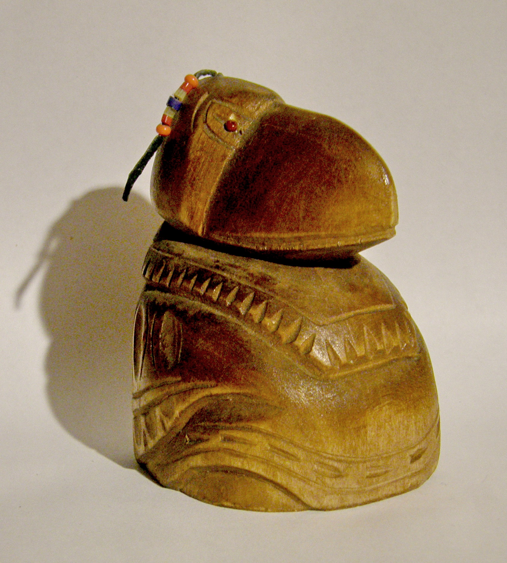 Wood carving of Kutkh, northeast Asian raven god, made by Koryak artisans of Kamchatka.